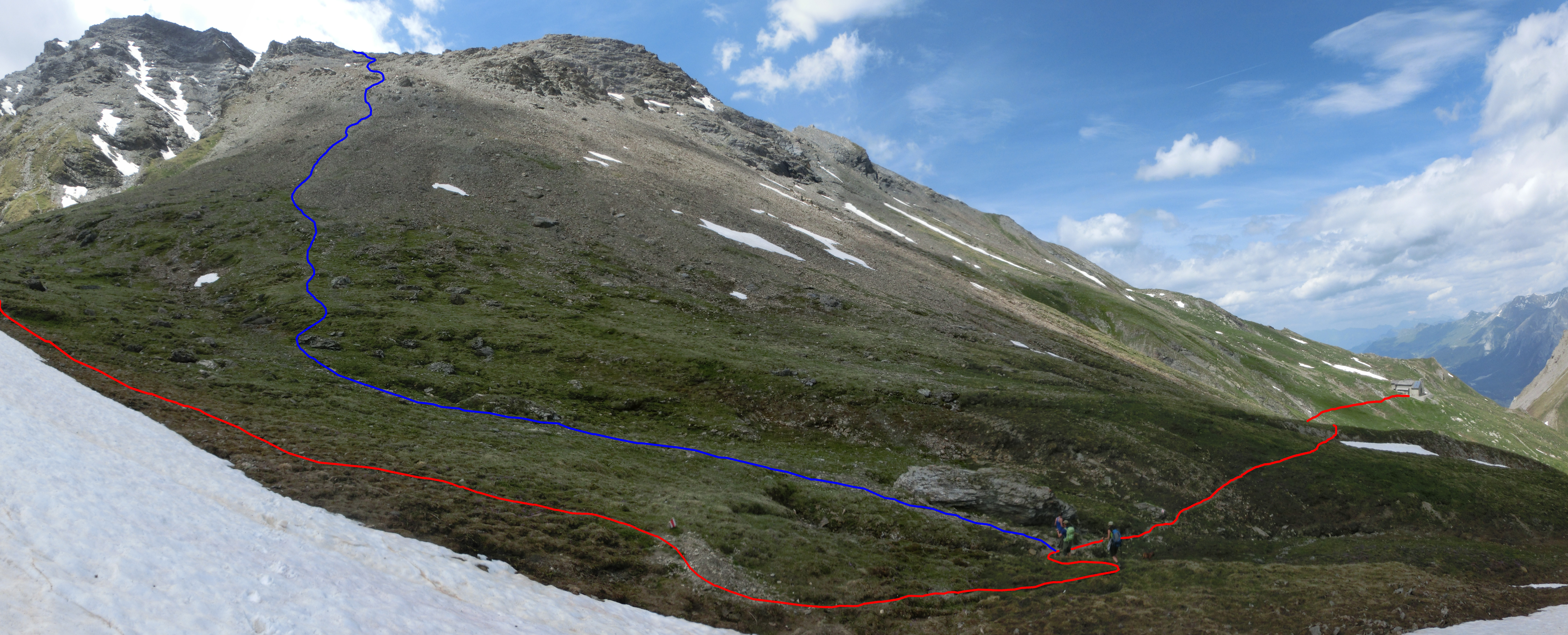 Route to Piz Curvér. Red the white-red-white marked trail from Ziteil (right) to Sponda sur Ses. Blue the standard route to Piz Curvér, Salouf, Grison, Switzerland